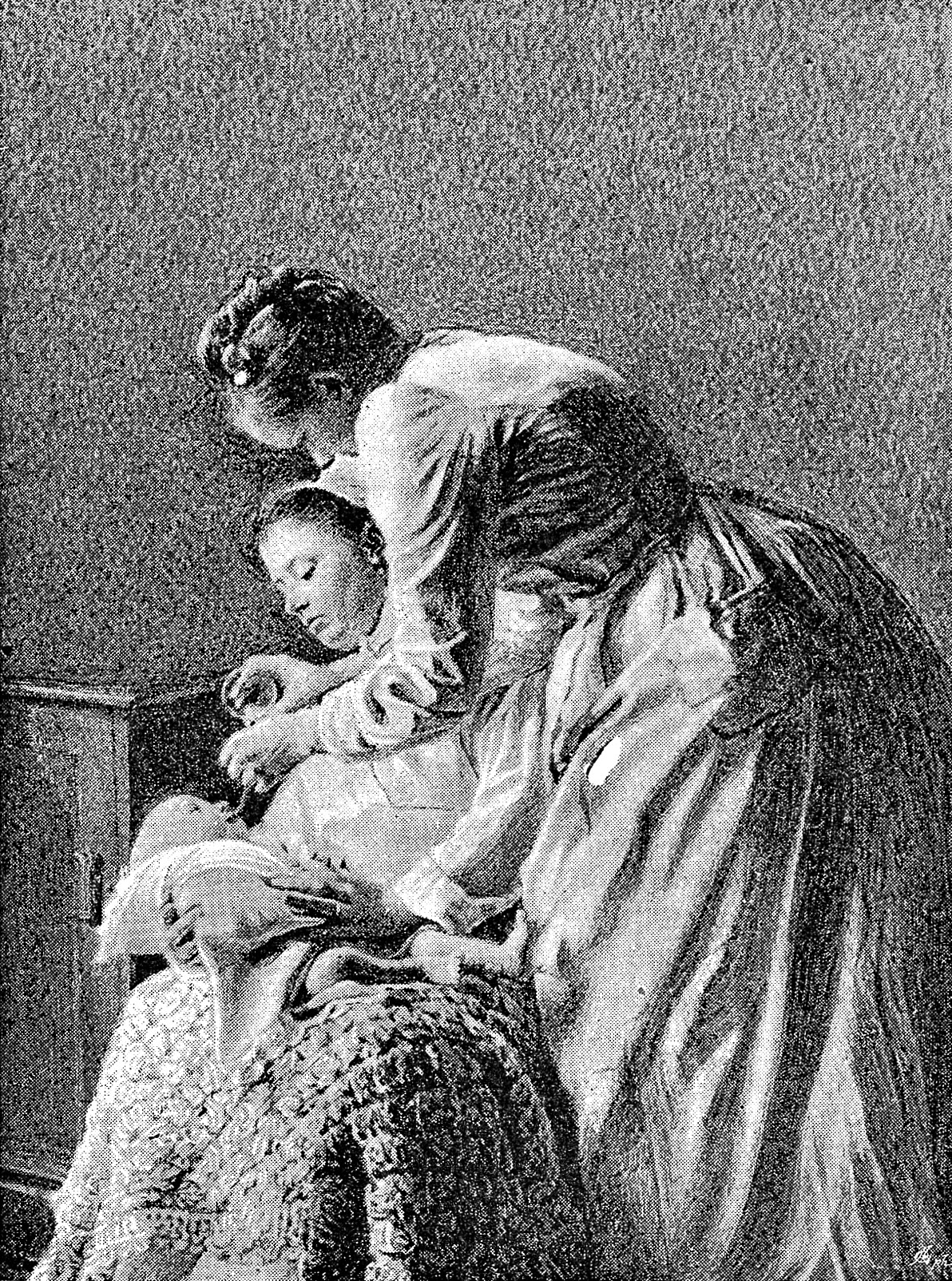 'Gavage' method of infant feeding used in France. General Collections Keywords: childcare; infant nutrition; Premature Birth